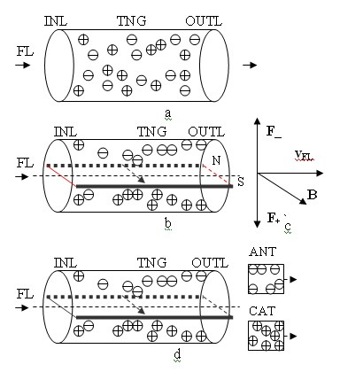 Molecular power 40. Influence of magnetic field on electrolyte solution flow in the absence of external magnetic field